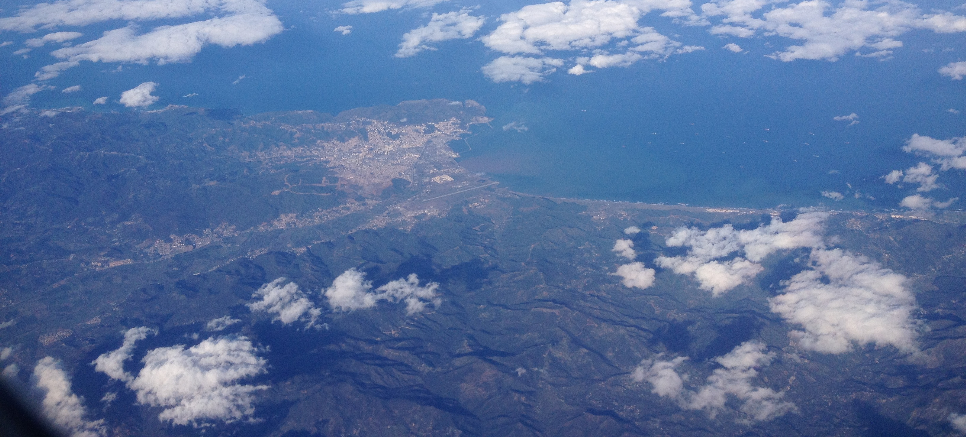 An aerial view of Béjaïa, Algeria.